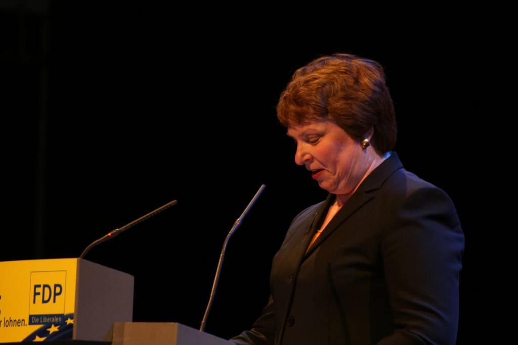 Sibylle Laurisck, German MP (FDP), giving a speech at a election campaign event in Offenburg, Germany, on June 4th, 2009.